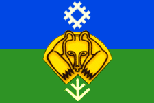 Flag of Syktyvkar, Komia, Russia